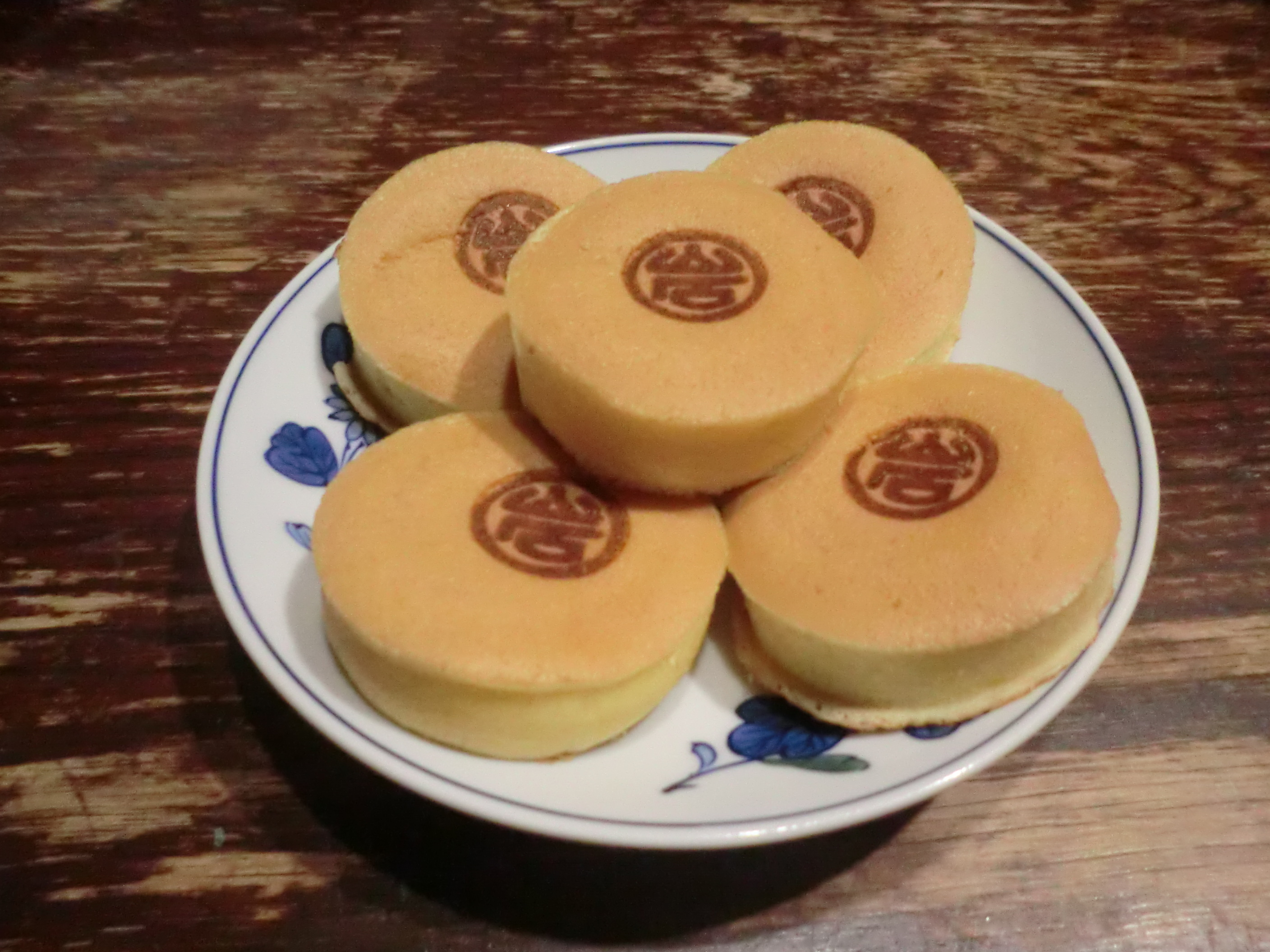 Kinsei manju(Japanese confectionary) in Kagoshima,Japan.